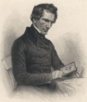 Sir Henry Montgomery Lawrence, by W. Joseph Edwards, after unknown photographer. Printed below: "From a photograph in the possession of the family". Stipple and line engraving, (1840s-1850s). 6 7/8 in. x 5 1/8 in. (174 mm x 130 mm) paper size. National Portrait Gallery, London. Purchased 1966. NPG D5026